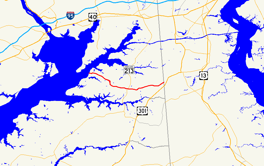 Map of Maryland Route 282